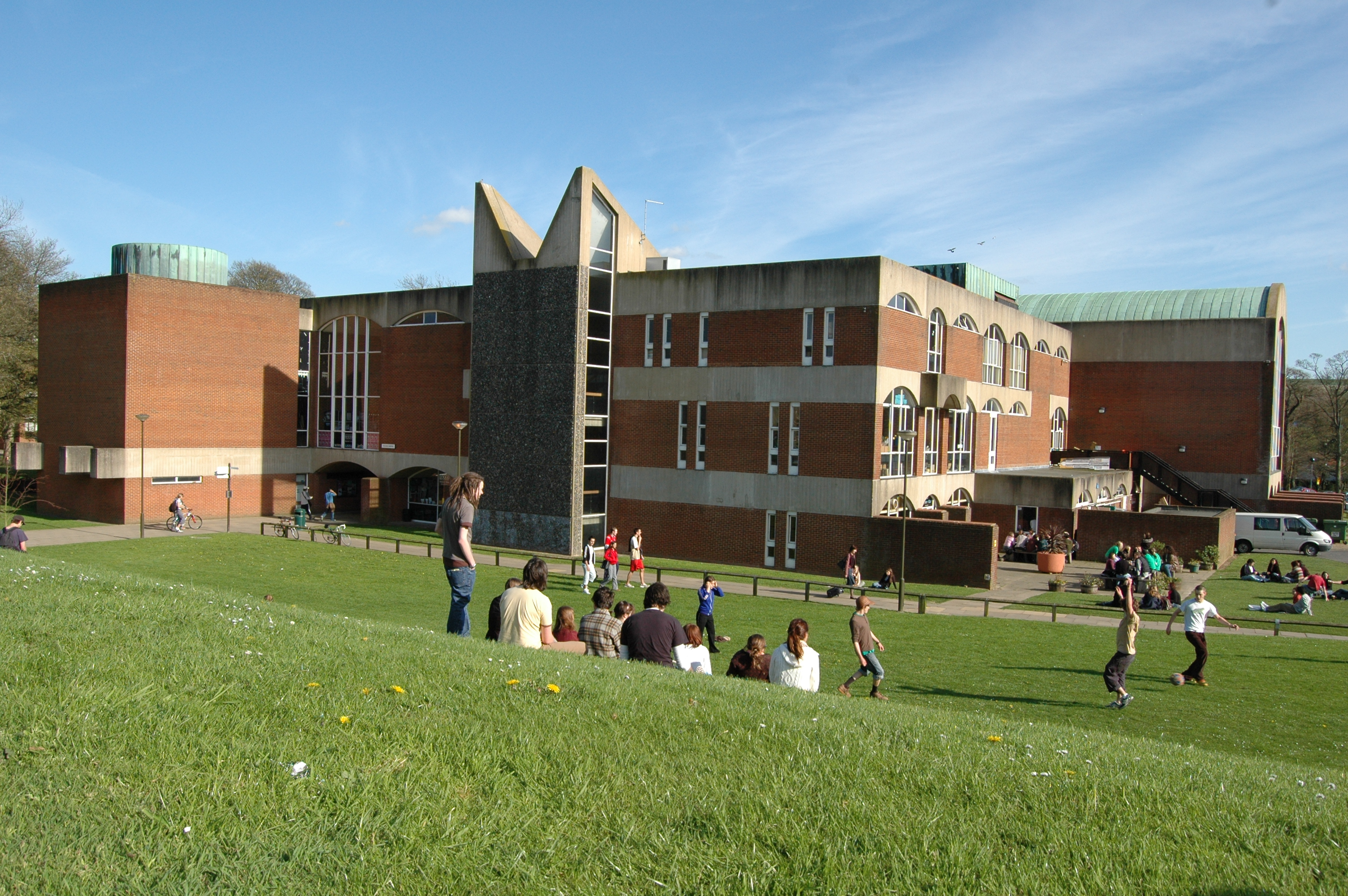 Falmer House